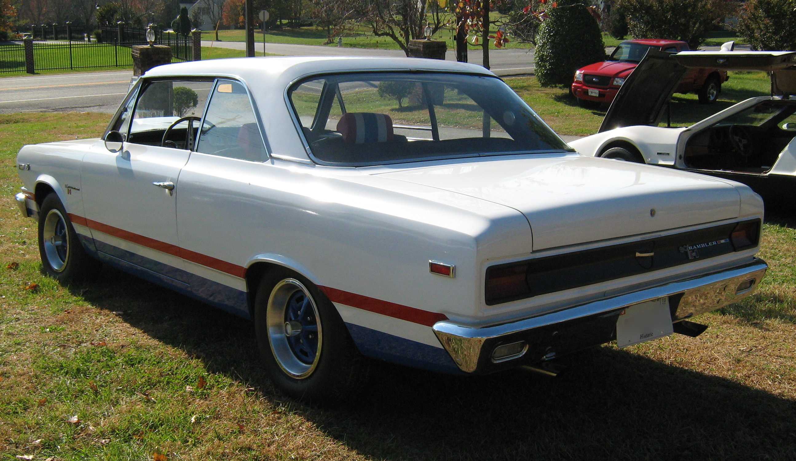 1969 SC/Rambler - a compact two-door hardtop compact muscle car produced by American Motors Corporation (AMC) in collaboration with Hurst Performance. This car has the "B" paint scheme. Picture taken at a meeting of the Potomac Ramblers Auto Club in Maryland.